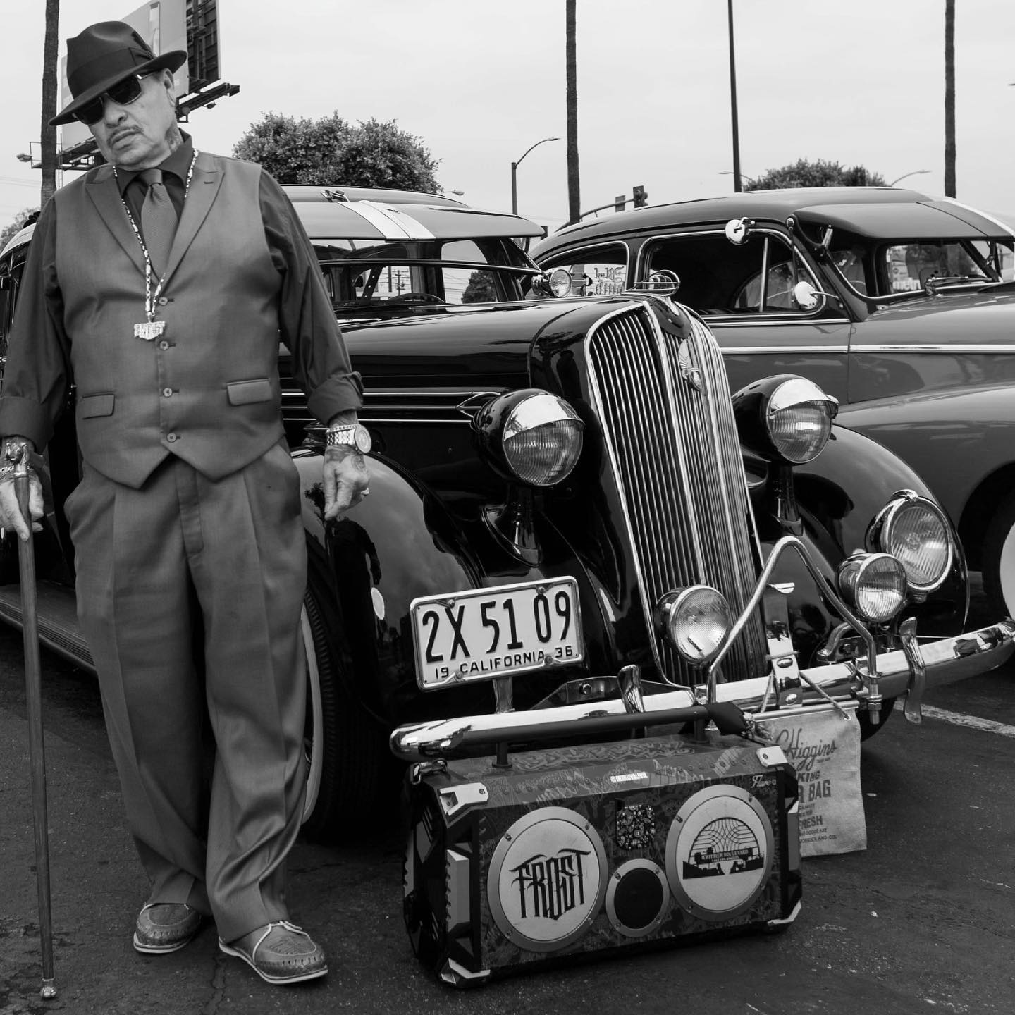 Kid Frost in the studio after his recording session with Serio in 2008.